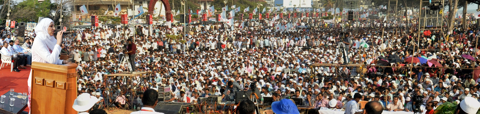 Salma Yaqoob with Solidarity Youth Movement kerala